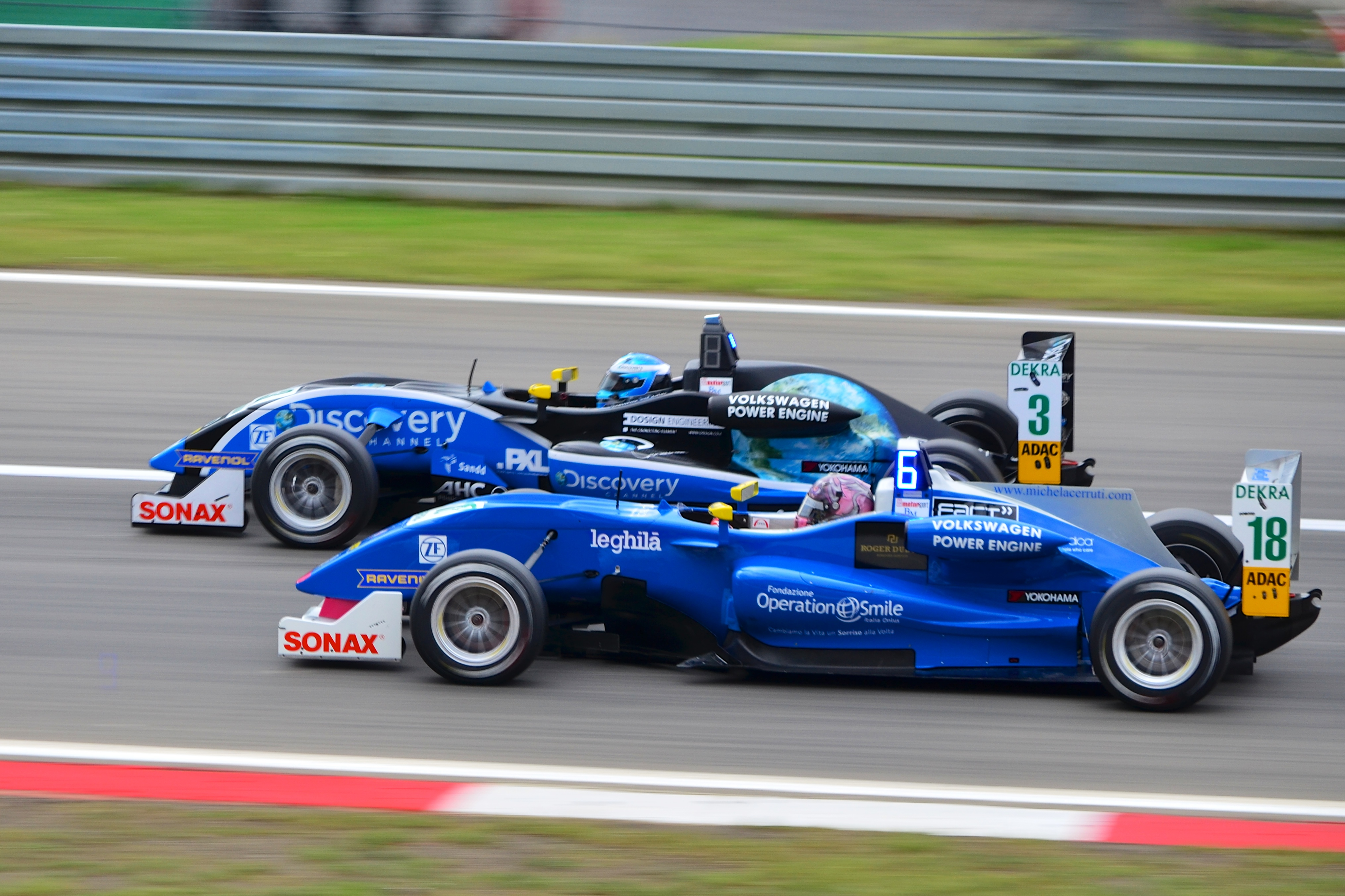 ATS Formula 3 Cup Racecar, Driver: Dennis van de Laar (3), Michela Cerutti (18)